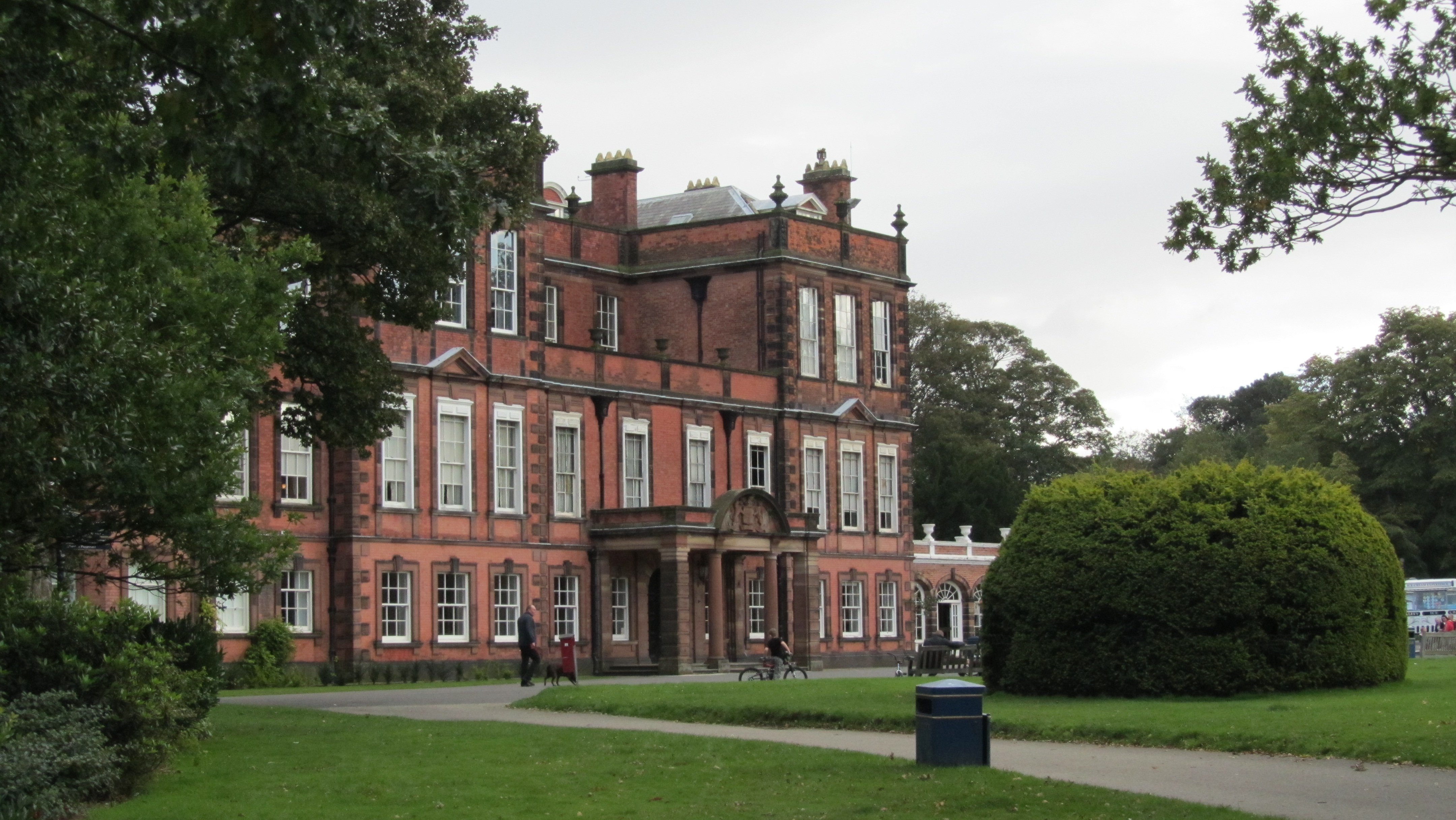 Croxteth Hall as it stands in 2010